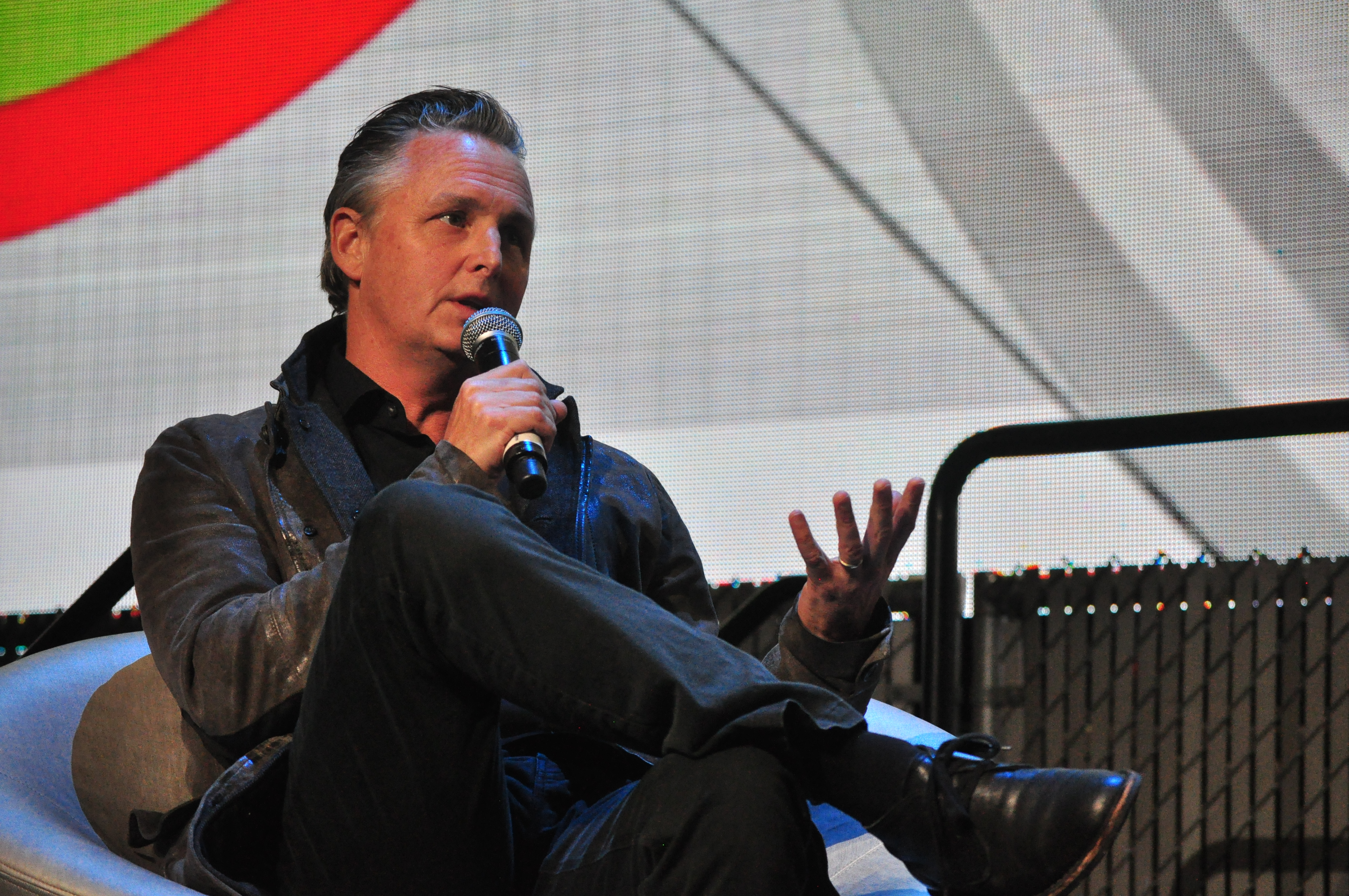 Mike McCready of Pearl Jam, on the keynote panel of 2014 Pop Conference, EMP Museum, Seattle, Washington, U.S.